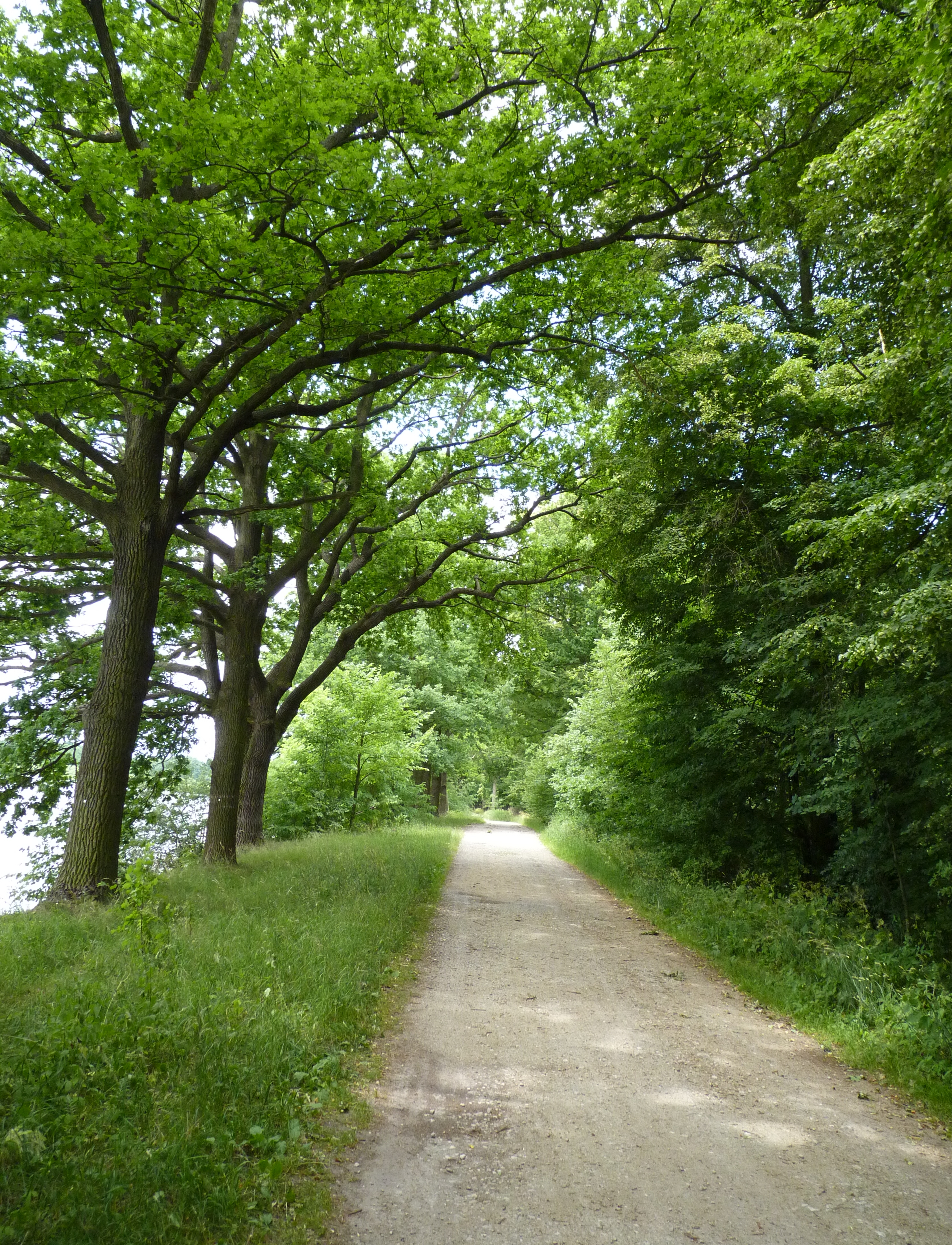 National natural reserve Velký a Malý Tisý. Jindřichův Hradec District, South Bohemian Region, Czech Republic